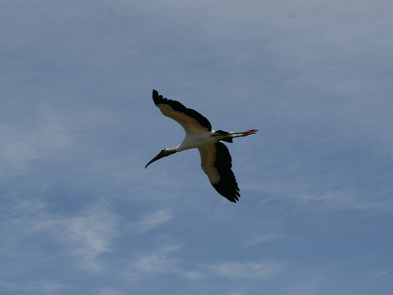 Wood Stork (Mycteria americana), Everglades National Park, Florida